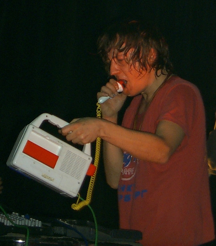 Kid Carpet's using a children's toy (cassette recorder) to make music.